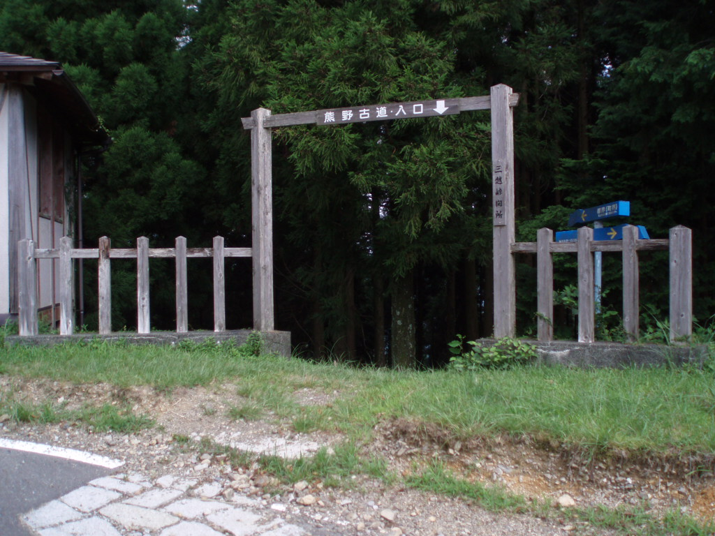 MIKOSHI-pass checkpoint